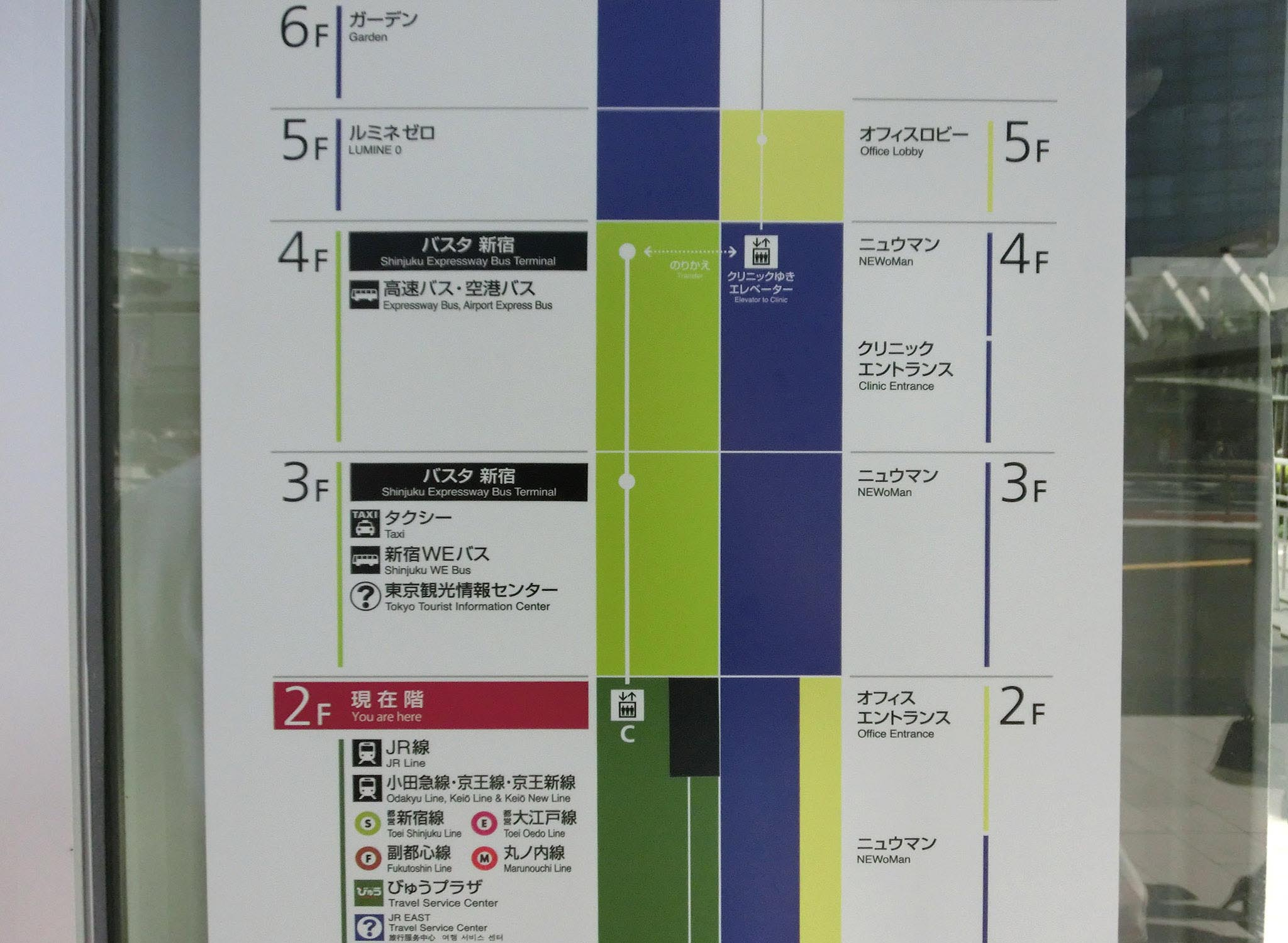 The floor guidance plate of the Shinjuku Expressway Bus Terminal (aka, Busta Shinjuku). The floor that faces the south exit of Shinjuku Station, at the same ground level of Kōshū Kaidō road, is the second floor of this building. Express way buses and the airport express buses depart from the 4th floor, as of May, 2016.